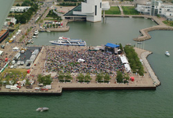 Voinovich Park, Cleveland, Ohio, United States aerial view.